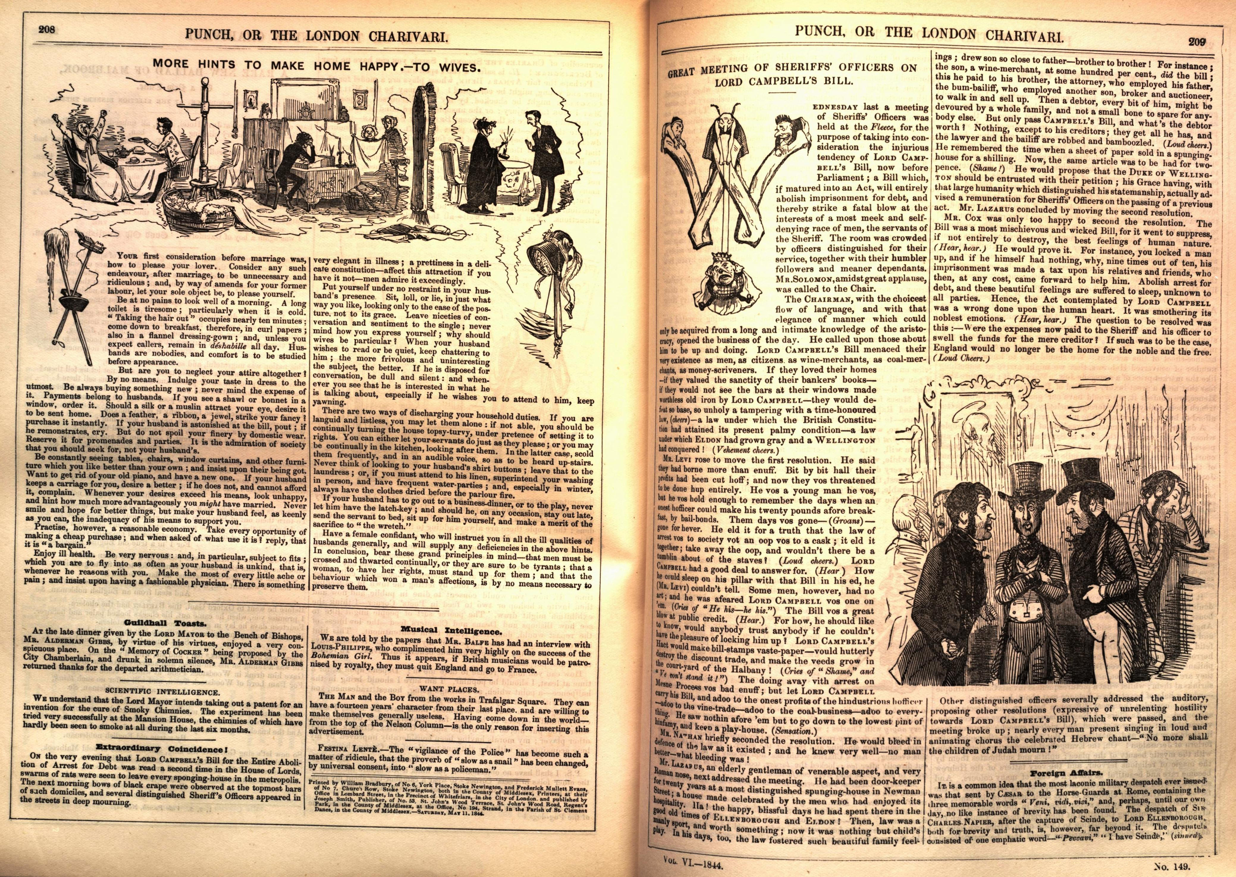 Page from Punch 18th May 1844